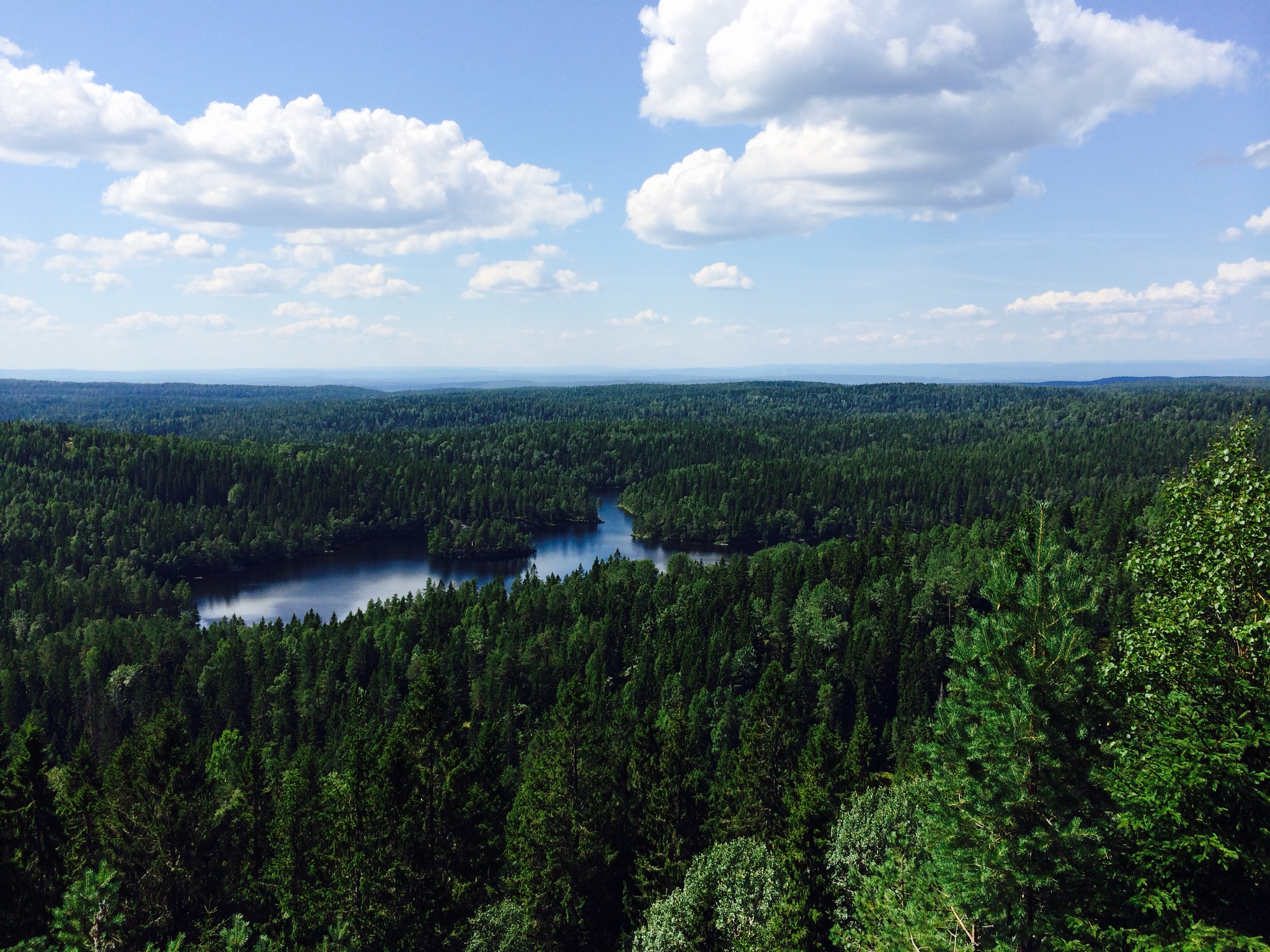 Tonekollen, looking west, towards Tonevann